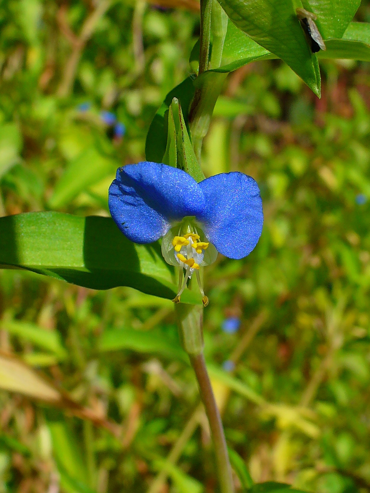 Commelina communis, Commelinaceae, Common Dayflower, flower; Botanischer Garten KIT, Karlsruhe, Germany.